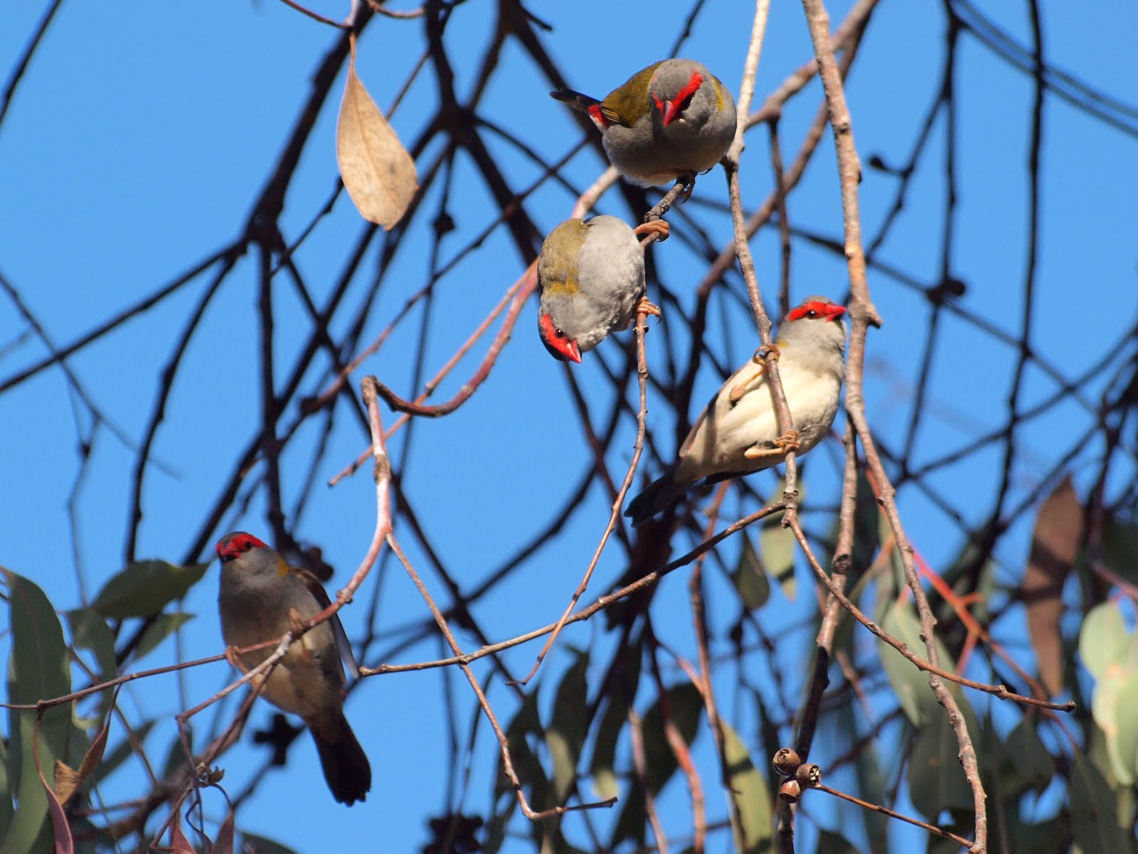 Four Red-browed Finches in Canberra, Australia.